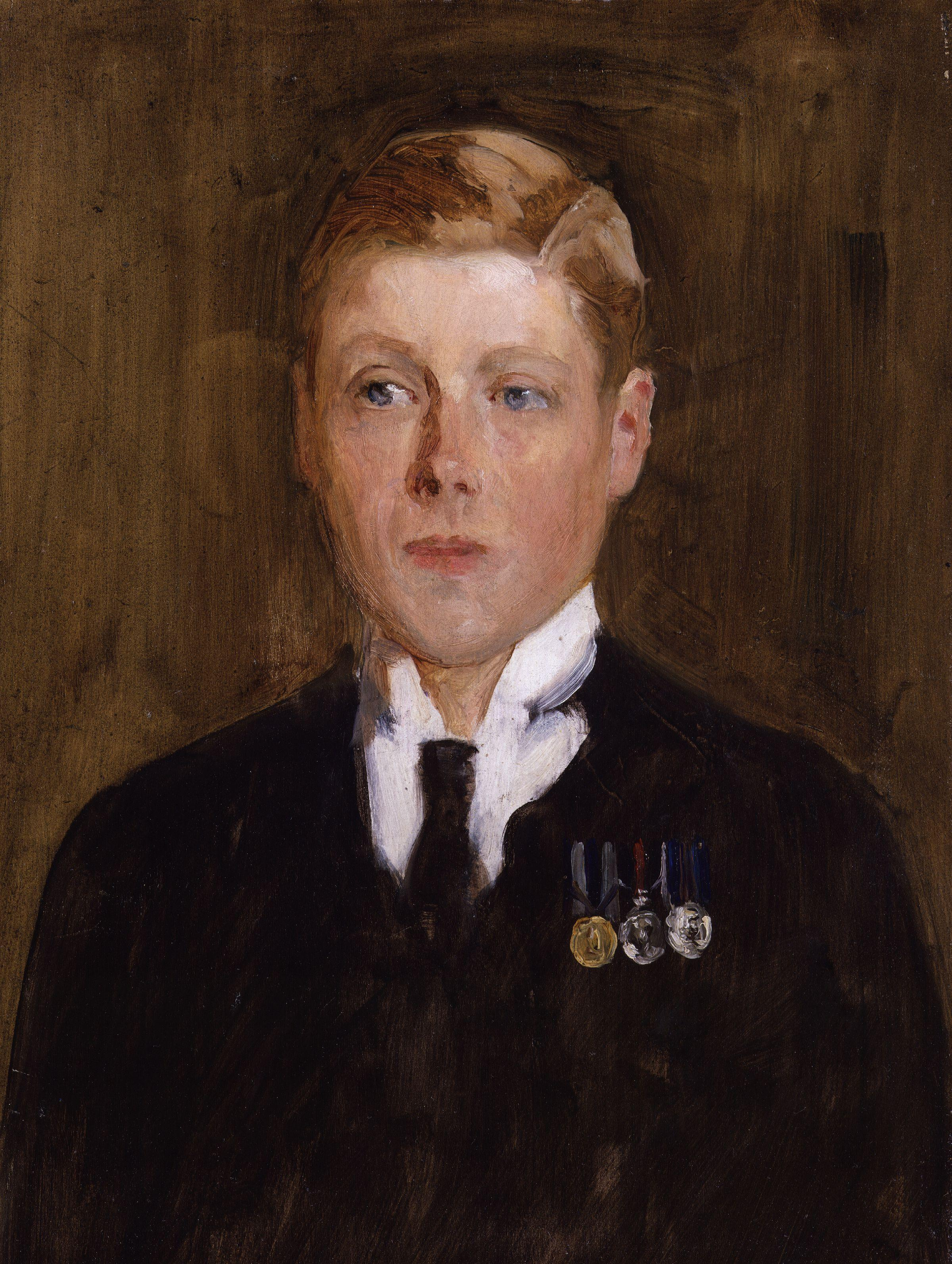 Prince Edward, Duke of Windsor (King Edward VIII), by Solomon Joseph Solomon (died 1927). All images in this batch have been confirmed as author died before 1939 according to the official death date listed by the NPG.